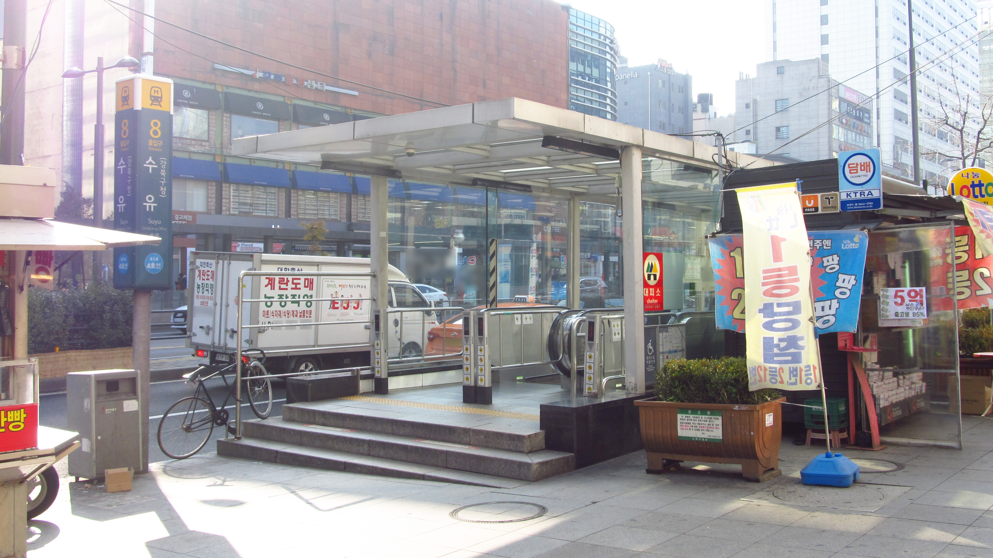 The no.8 entrance to Suyu Station on the Seoul Metro Line 4 in Gangbuk-gu, Seoul, Republic of Korea(South Korea)